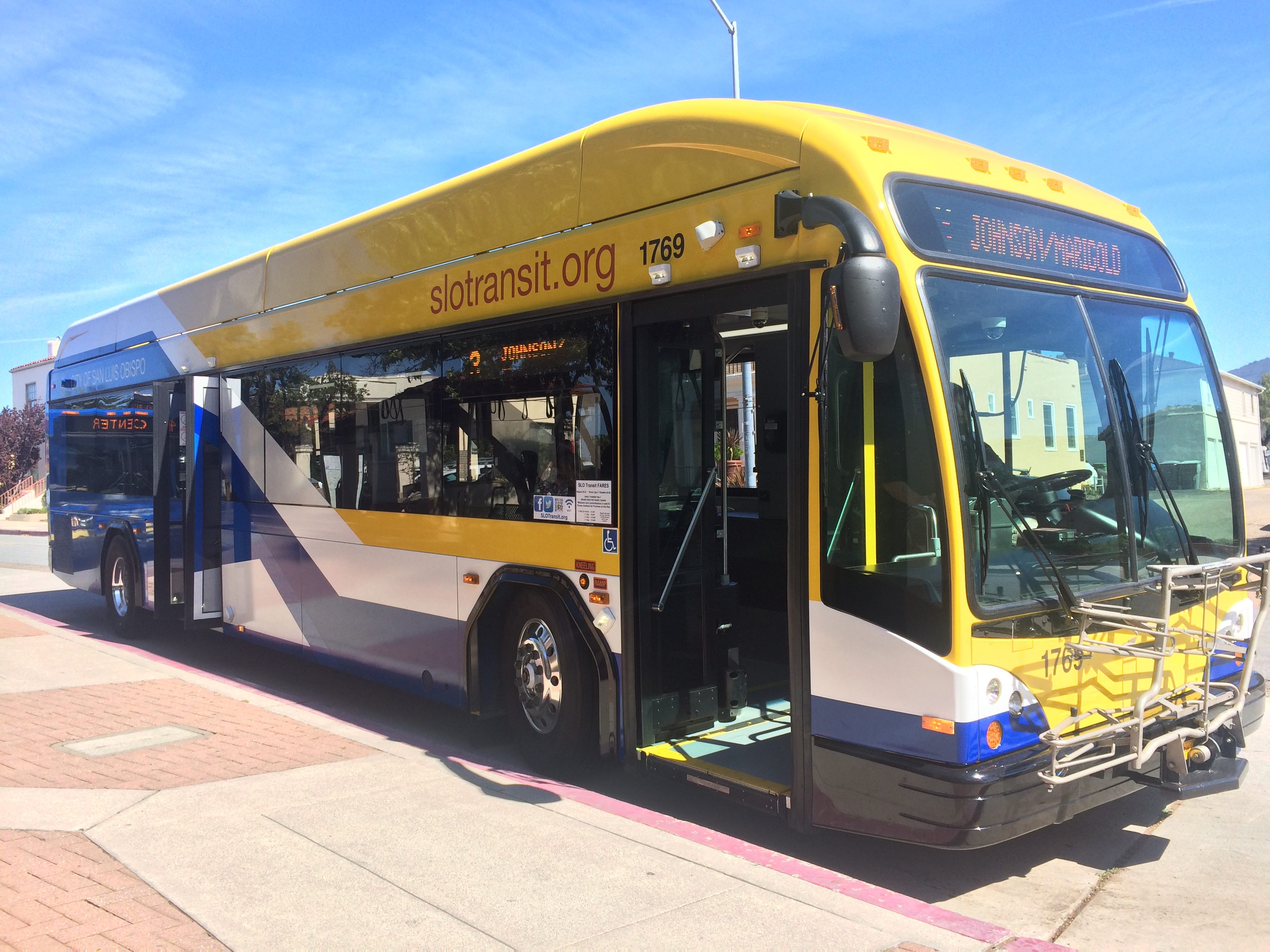 San Luis Obispo Transit's new 40 foot bus.